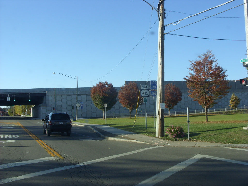 New York State Route 415 north, approaching the interchange with Interstate 86 in Corning.